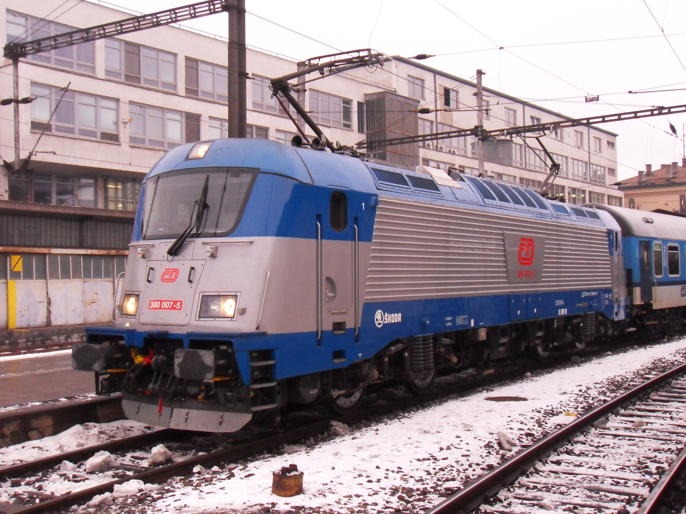 380.007 electric locomotive of České dráhy, station Brno hlavní nádraží, Czech Republic